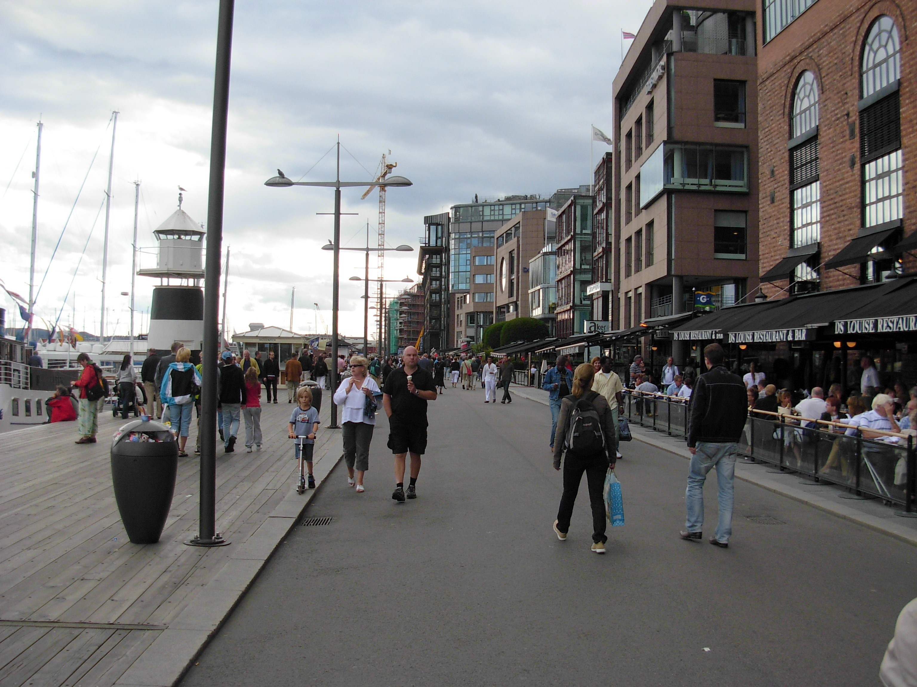 Promenade at Stranden / Tingvallakaia, Aker brygge, Oslo